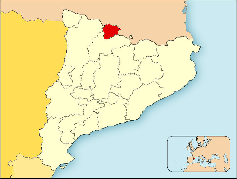 Map of Catalonia 1659-1716